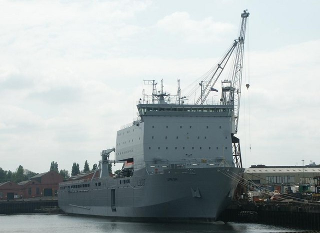 RFA Lyme Bay (L3007) at Govan Shipbuilders